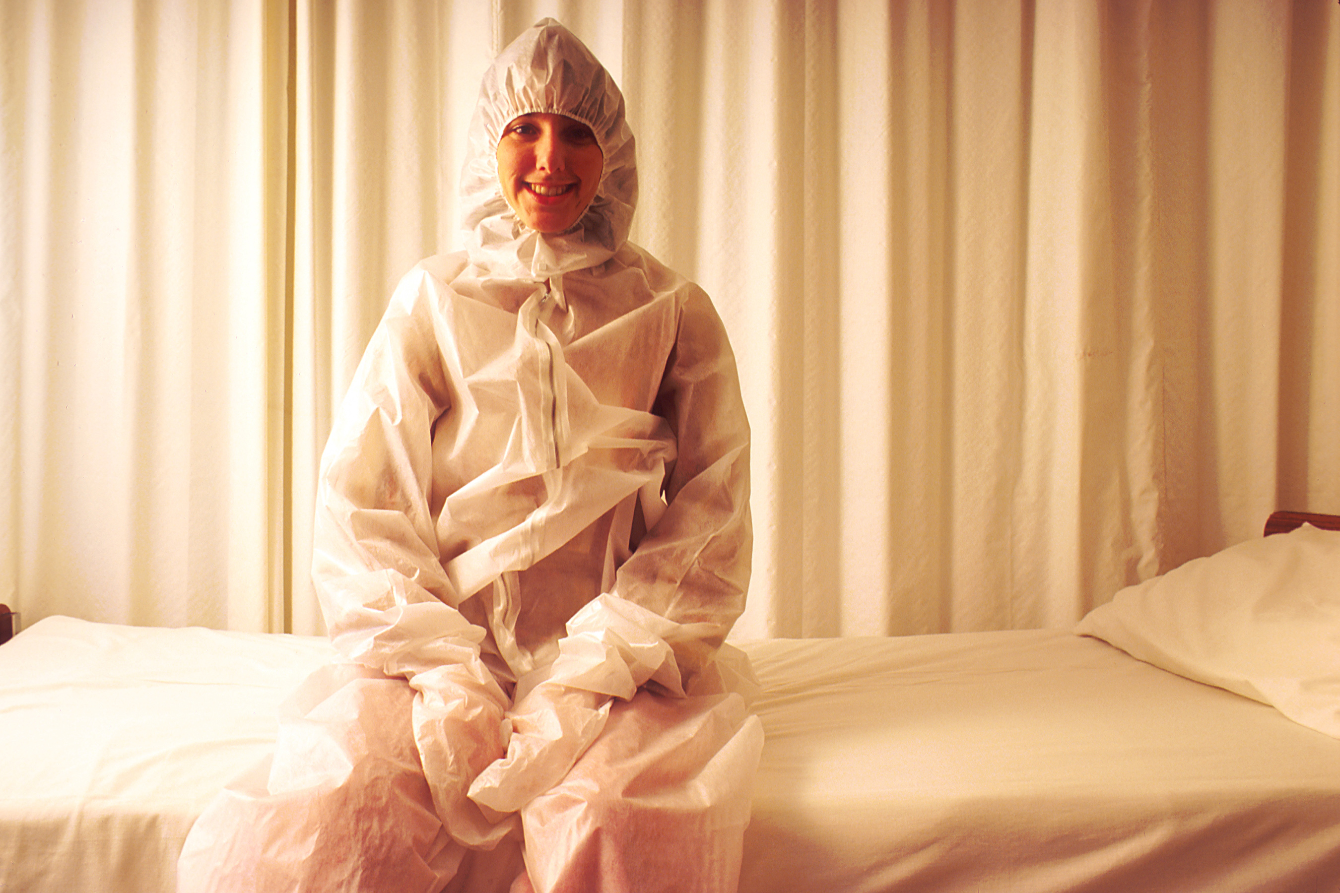 Title: Treatment: Hyperthermia Description: Shown is a patient being treated with hyperthermia. Whole body hyperthermia is a method to raise a patient's body temperature for the treatment of advanced cancer. This technique is based on laboratory studies that show cancer cells are more sensitive to heat injury than normal cells. Physicians induce hyperthermia using a high-flow water suit controlled by a microprocessor, a machine which closely monitors body temperature. The patient's body temperature is raised by the insulated build-up of metabolic (body) heat, plus by the heat delivered by the warm-water suit. Subjects (names): Topics/Categories: Treatment -- Hyperthermia Type: Color Slide Source: National Cancer Institute Author: Mike Mitchell (photographer) AV Number: AV-7803-0101-B Date Created: March 1978 Date Added: 1/1/2001 Reuse Restrictions: None - This image is in the public domain and can be freely reused. Please credit the source and/or author listed above.